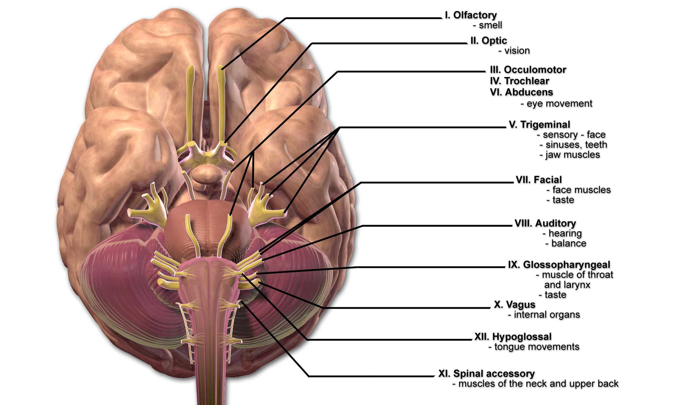 Cranial Nerves. See a full animation of this medical topic.